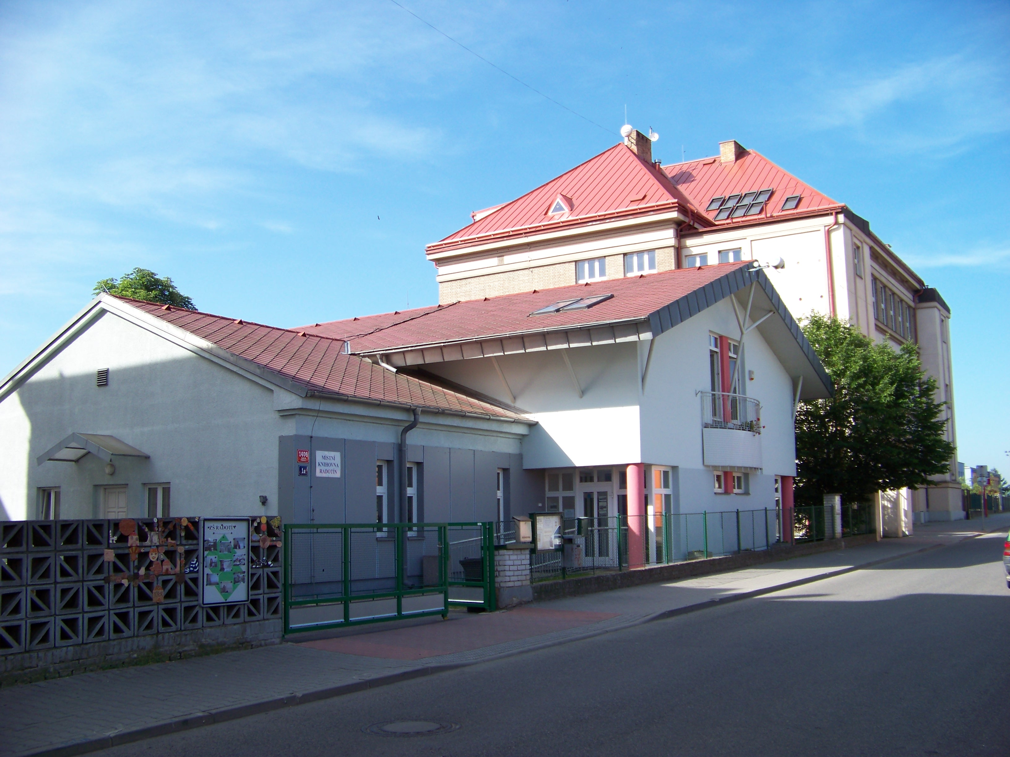 Prague-Radotín, Czech Republic. Loučanská 1406/1a (a local library) and 520/1 (Ota Pavel Gymnasium).